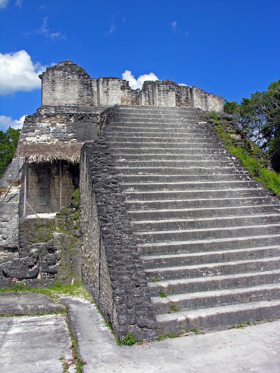 Guatemala-1611, Temple 22 (Structure 5D-22) in the North Acropolis, Tikal, Guatemala.